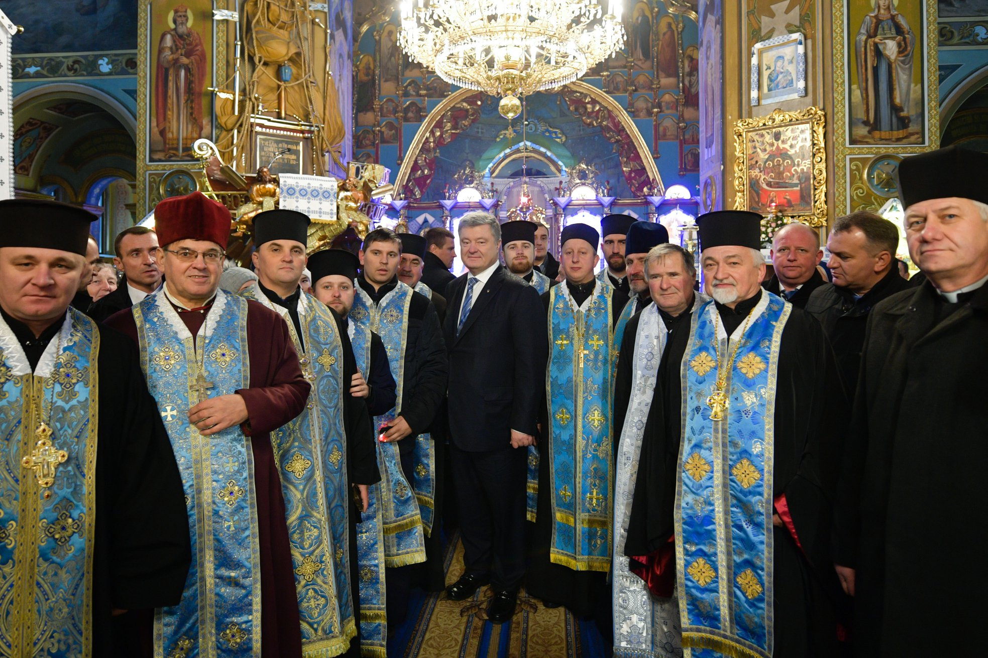 Президент Петро Порошенко, участь у молитві за всіх борців за волю і незалежність України у храмі Успіння Пресвятої Богородиці. с. Жовтанці 8 грудня 2018 року